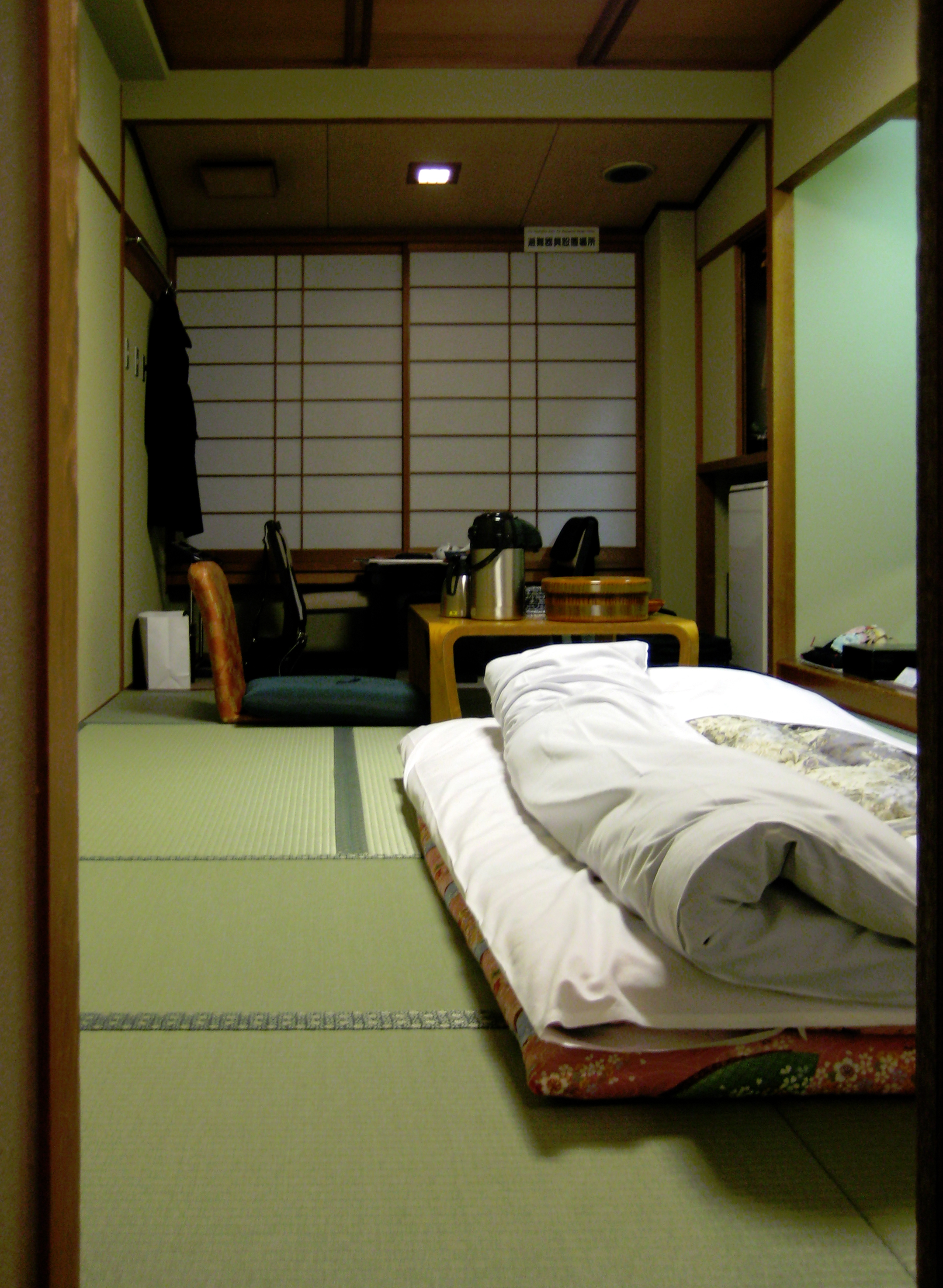 futon is rolled out for the night